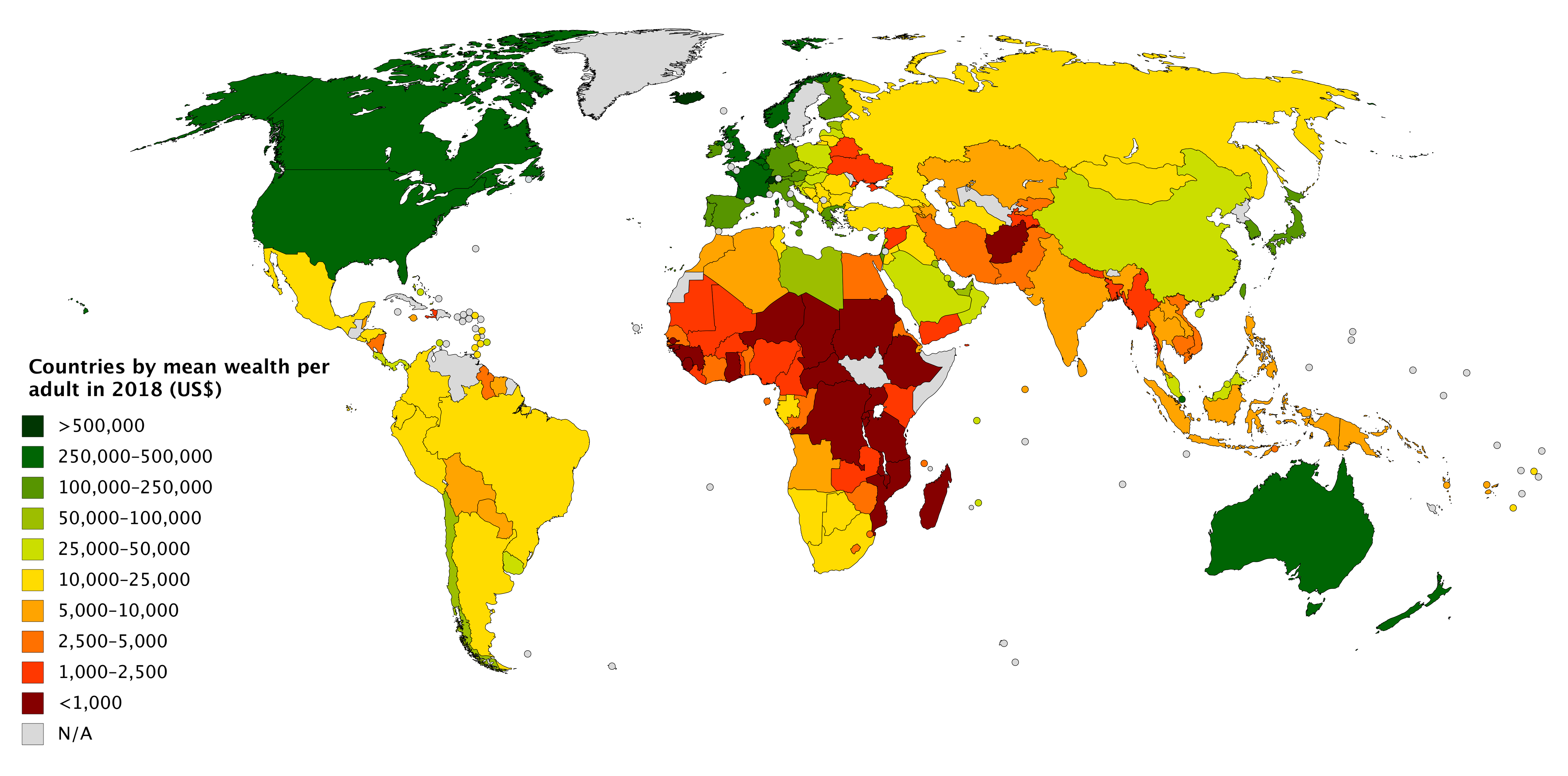 A choropleth map showing countries and territories by mean wealth per adult in US dollars as of 2018, based on Credit Suisse's Global Wealth Databook of 2018.